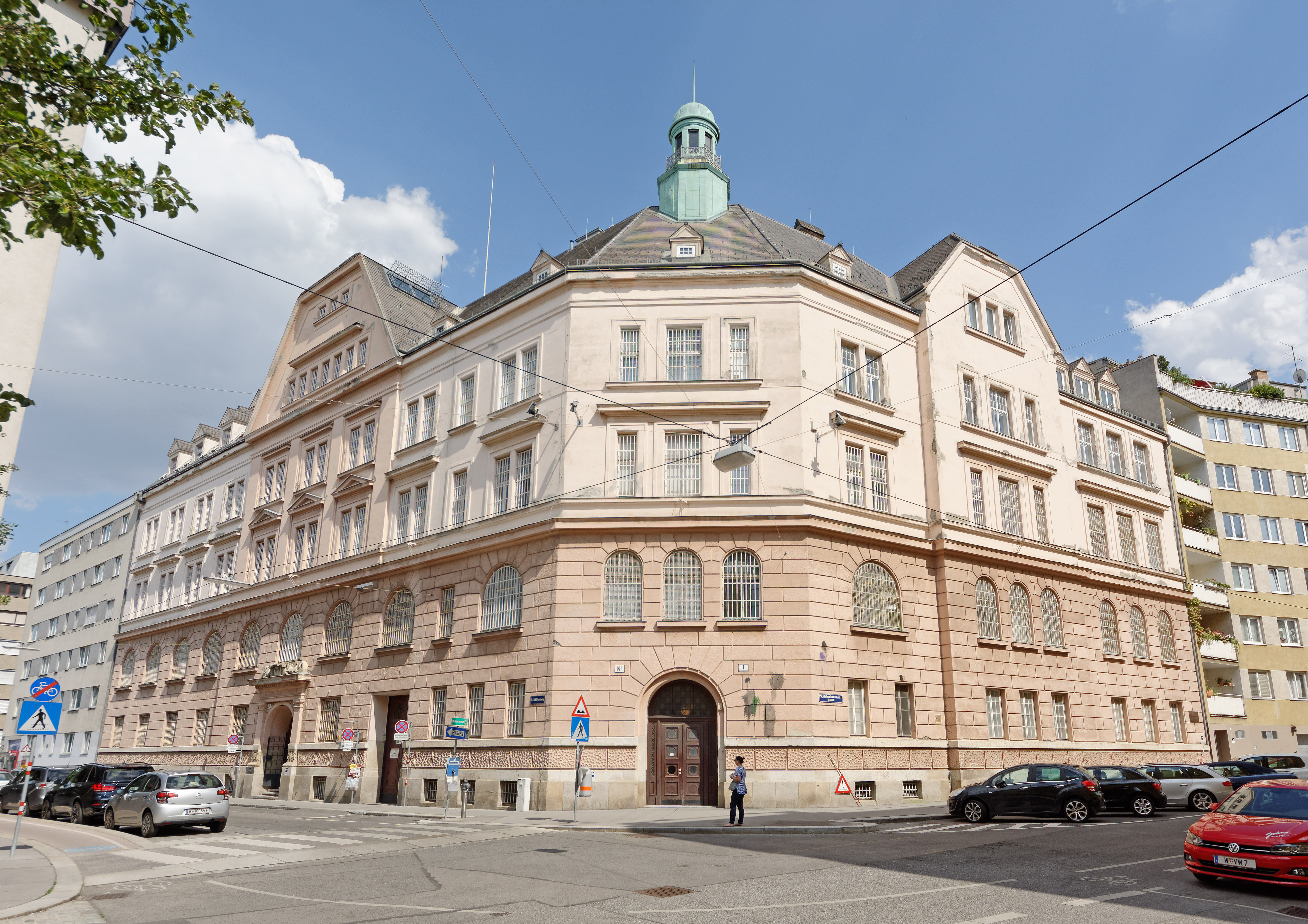 Special prison "Mittersteig" at Margareten, Municipality Vienna, Austria